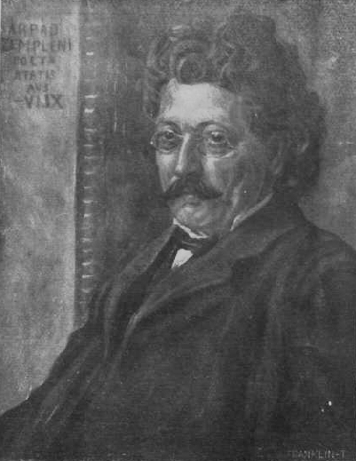 Árpád Zempléni (painting)